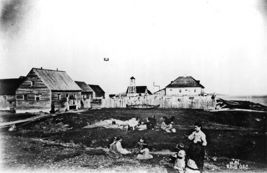 Old Fort Albany, Ontario, as it appeared in 1886.